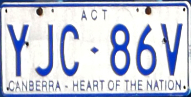 1977–1980 Toyota Cressida (MX32R) sedan. Photographed in Flemington, Victoria, Australia.